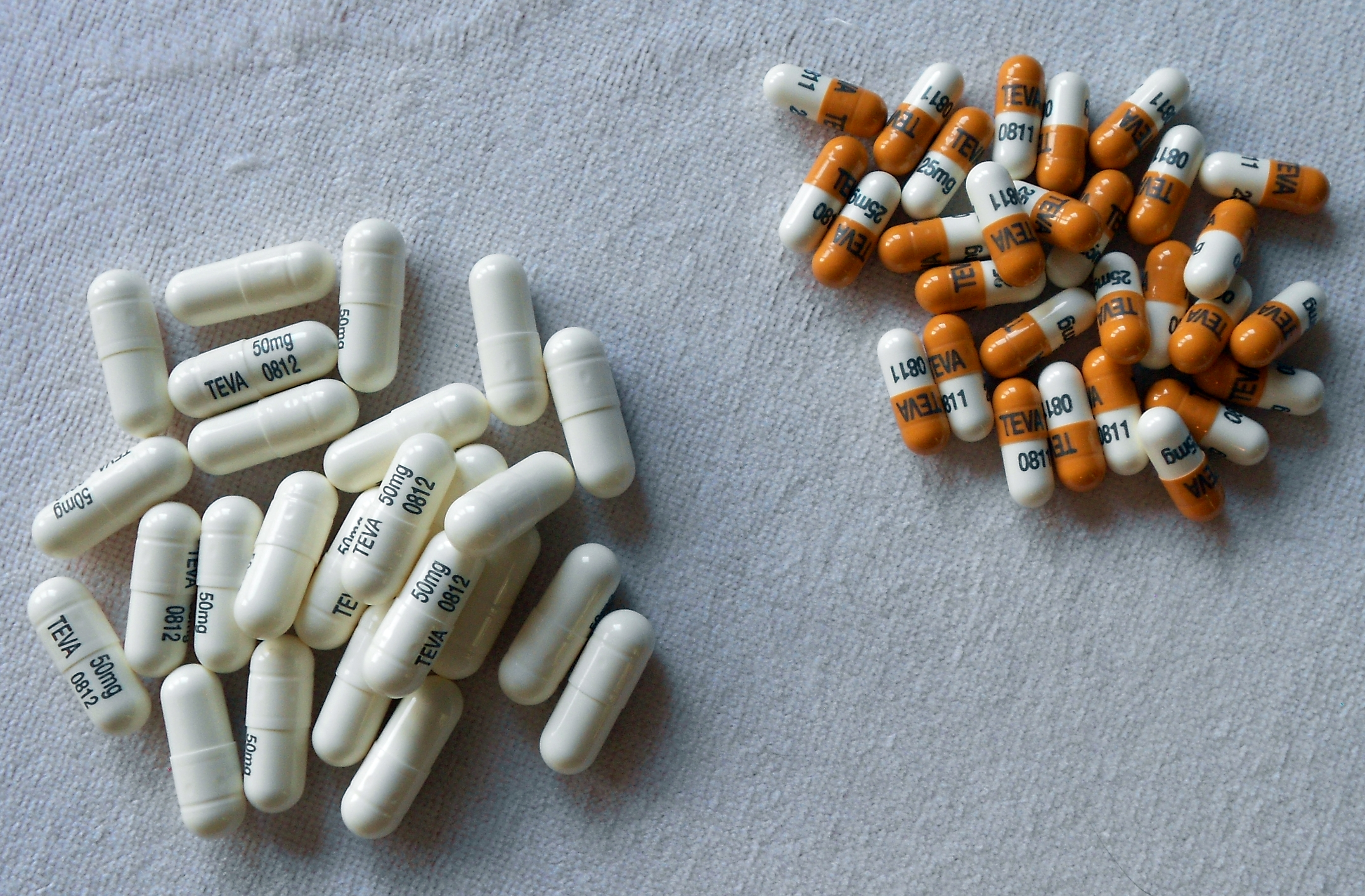 Generic Nortriptyline HCL capsules made by Teva, 50mg on left and 25mg on right. The 50mg capsules are 1.6cm long and 0.6cm wide, while the 25mg capsules are 1.2cm long and 0.4cm wide.